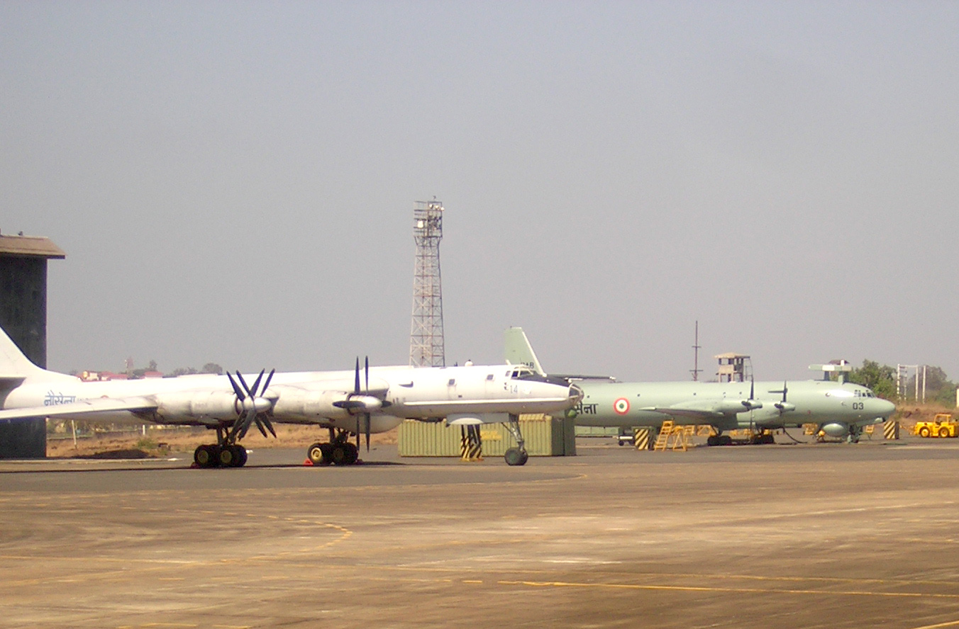 A great retro-style warplane, eight contra-rotating props. As per comment received, Ilyushin Il-38 "May" in the background!